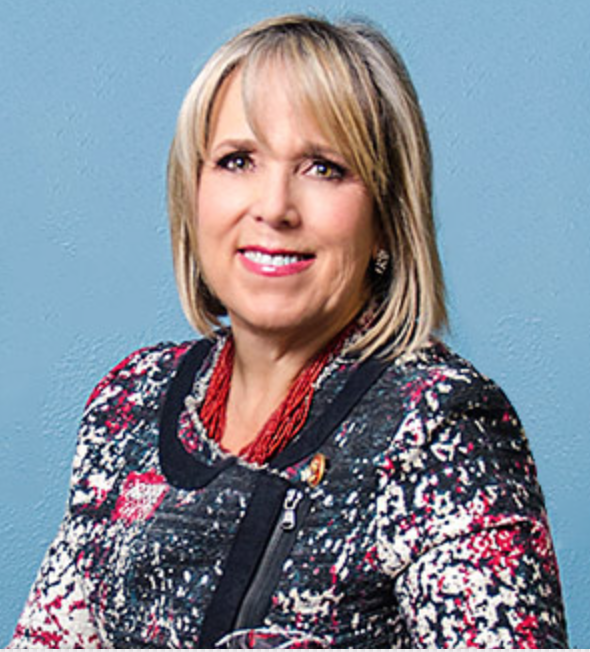 Michelle Lujan Grisham